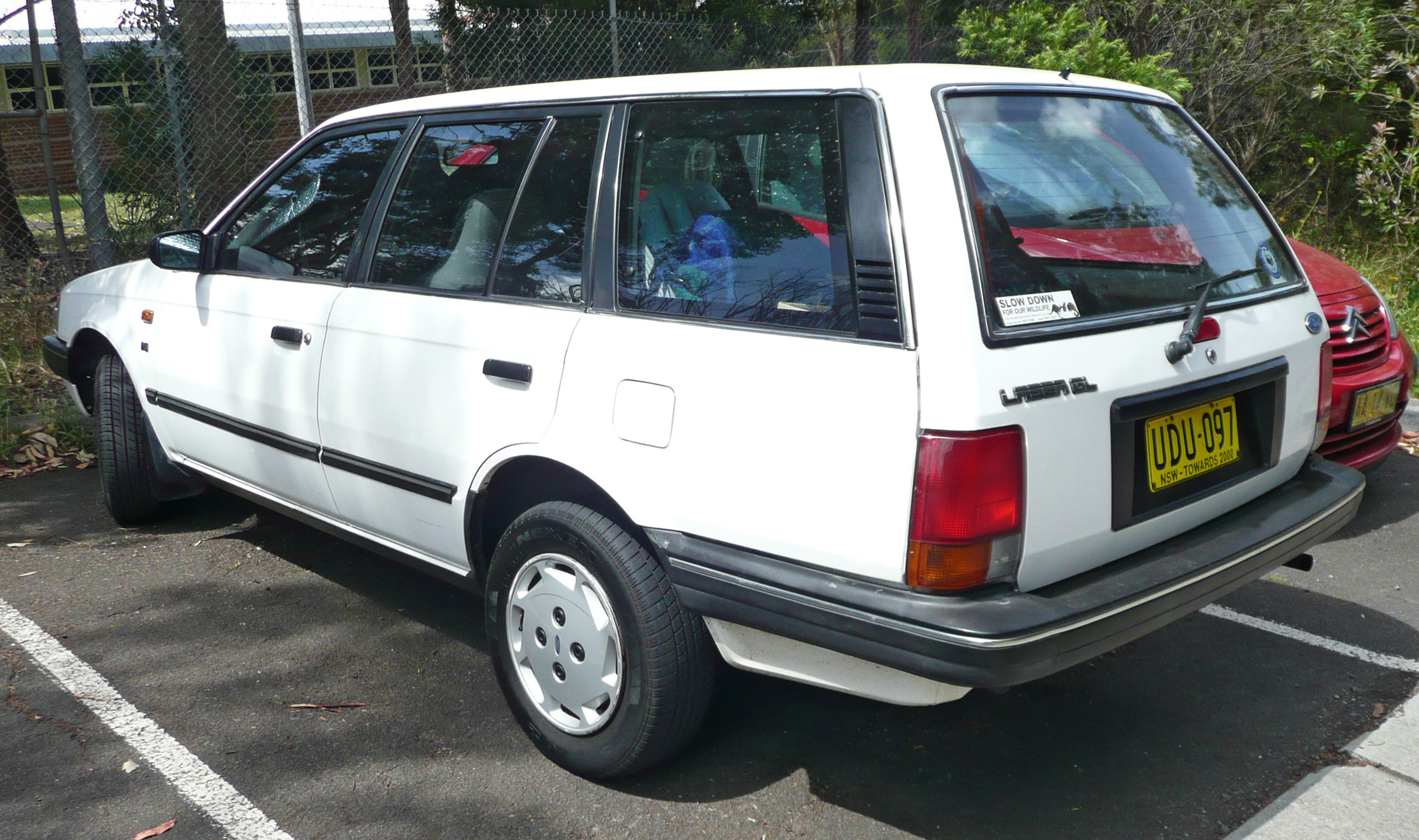 1993 Ford Laser (KE II) GL station wagon. Photographed in Loftus, New South Wales, Australia.